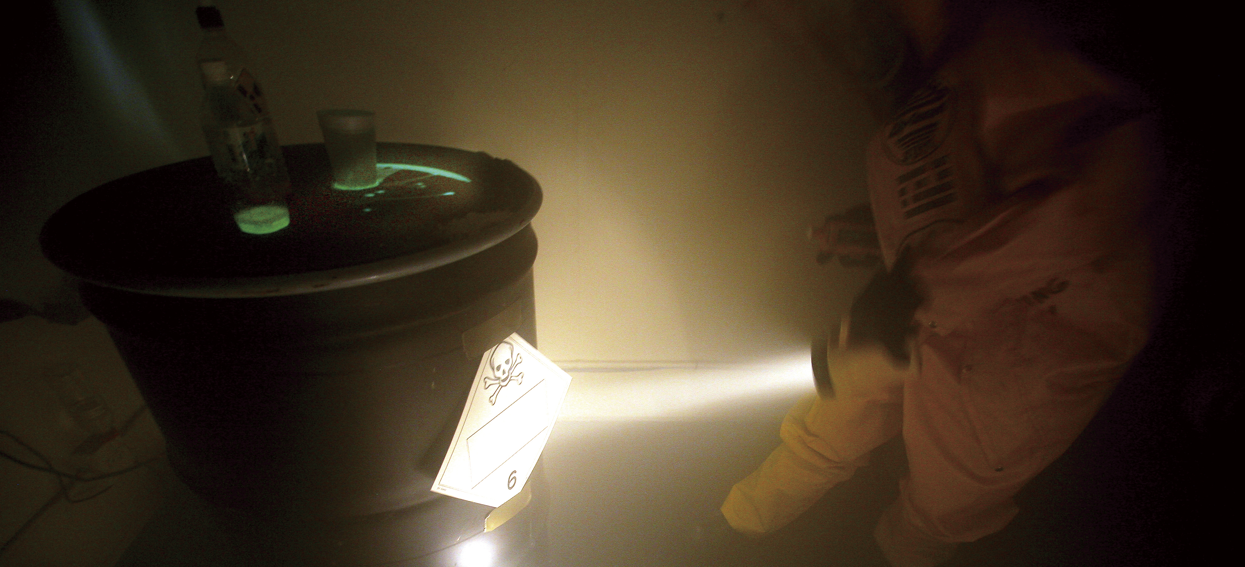 Marines use a flashlight to identify a hazardous material label during Hazardous Waste Operations and Emergency Response training aboard Camp Foster March 20. Unit: III Marine Expeditionary Force DVIDS Tags: Marine; OKINAWA; yarbrough